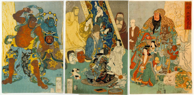 The Famous, the Unrivalled Hidari Jingoro (Meiyo migi ni teki nashi Hidari Jingoro) Color woodblock prints Oban (triptych) Each measures 15" x 10" The famous Japanese woodblock print artist Utagawa Kuniyoshi is noted for his famous drawings depicting NEKO (cats). In this triptych, Kuniyoshi depicts the famous artist, designer, carver, sculpurer, carpenter, and architect - Hidari Jingoro. Hidari means left and the artist was left-handed. Jingoro is shown surrounded by his carvings found throughout Japan including a tri-color calico neko (cat). Hidari Jingoro is most noted for his famous wood carving Nemurineko (sleeping cat) located at the sacred Shrines & Temples in Nikko, Japan. His early 1600s work of art sculpture on nemurineko continues to influence many artists in Japan and throughout the world in depicting sleeping cats that are greatly appreciated and admired. Based on the writing of Zempei Matsumura's book, "Nikko Toshogu Shrine and Jingoro Hidari" published by Nohi Publishing Co of Japan in 1975: Jingoro Hidari was ambidextrous and able to write with either hand. Jingoro Hidari was skilled in Kendo, Japanese fencing, and was taught by the famous Kendo master Tatsumasa Yamazaki of the Tomita School. Jingoro Hidari was an apprentice to the Chief Architect, Hokyo Yoheiji Yusa, of the Imperial Court in Kyoto, and studied the building of temples and shrines and sculpturing at the Fushimi studio. Jingoro Hidari invented an automatic oil-refilling candlestick stand that was both decorative and functional and due to this creation Awarded the title Unique Person Under the Sun by the Emperor Gomizunoo of Japan. Jingoro Hidari created a new technique in detailed sculptured animals, particularly cats. Submitted by Waiapo from